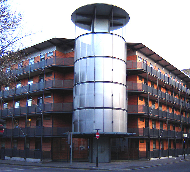 Peabody Trust Building, corner of Murray Grove and Shepherdess Walk, Hoxton, Hackney, London. 28 January 2006. Photographer: Fin Fahey.